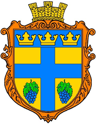 Coats of arms of Zmiyivka Village